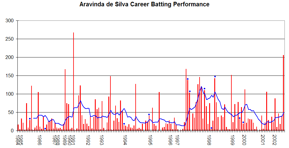 This graph details the Test Match performance of Aravinda de Silva. It was created by Raven4x4x. The red bars indicate the player's test match innings, while the blue line shows the average of the ten most recent innings at that point. Note that this average cannot be calculated for the first nine innings. The blue dots indicate innings in which de Silva finished not-out. This graph was generated with Microsoft Excel 2002, using data from Cricinfo and .au.